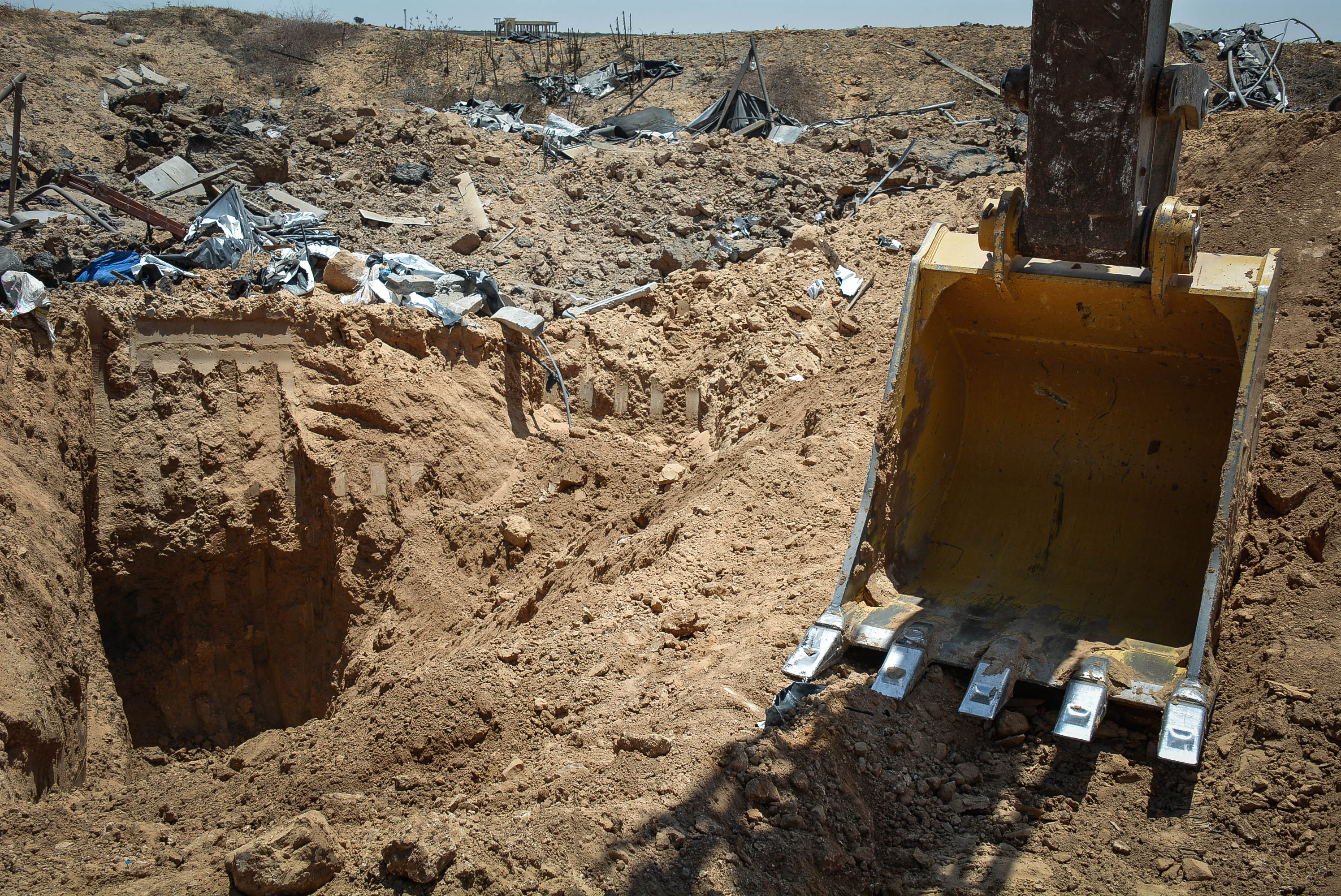 A first look at some of Hamas' tunnels uncovered on July 18 in the Gaza Strip. The tunnels were found next to a mosque. These tunnels are used to kidnap and murder Israelis. For more updates: The Israel Defense Forces Facebook The Israel Defense Forces blog Follow us on Twitter